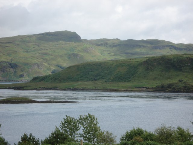 The northern tip of Torsa seen from Seil